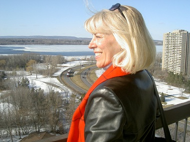 Christine Charbonneau enjoying the view of the Ottawa River.